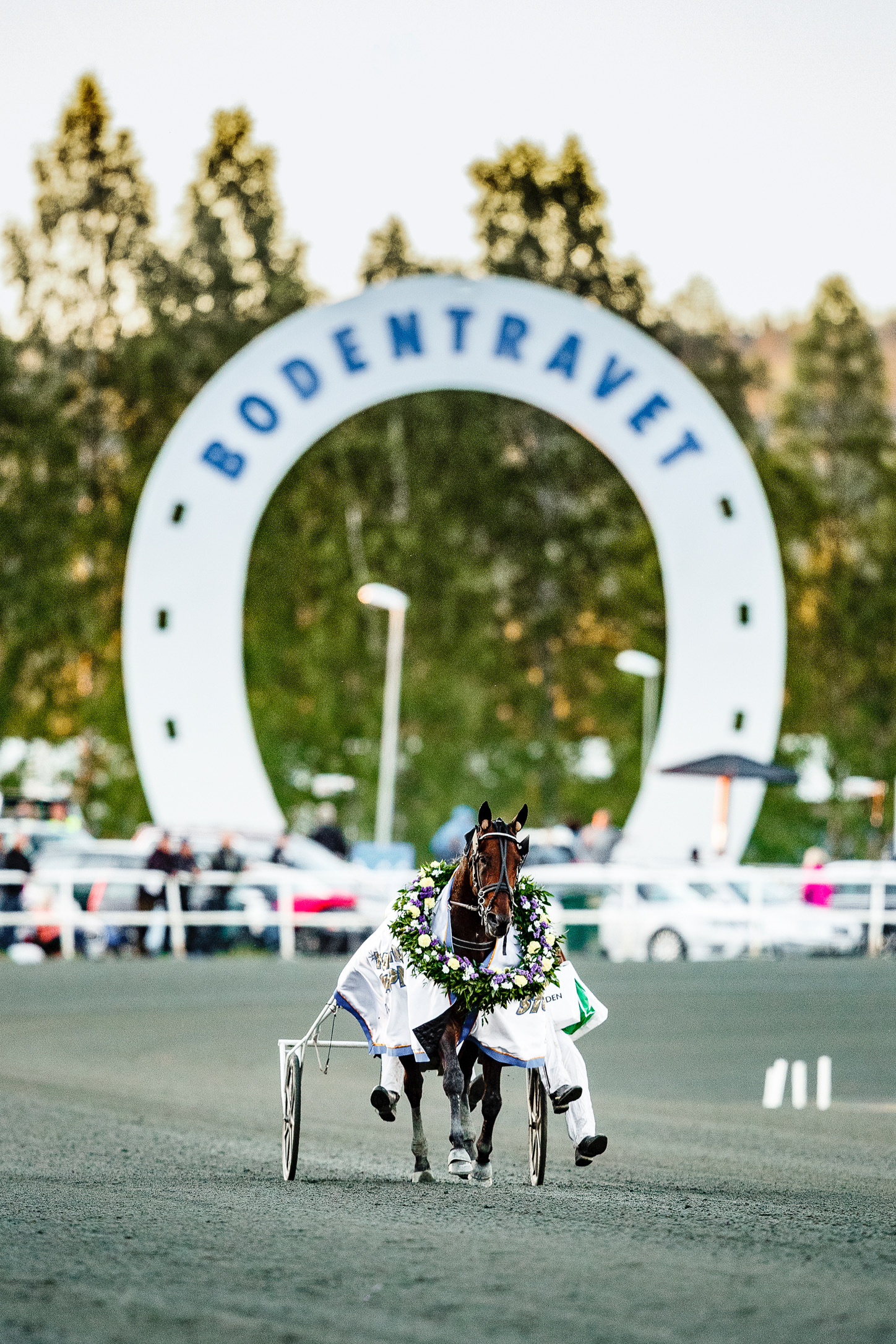 Foto: MATS ENGFORS / FOTOGRAPHIC TR MEDIA Propulsion efter seger i Norrbottens Stora Pris.